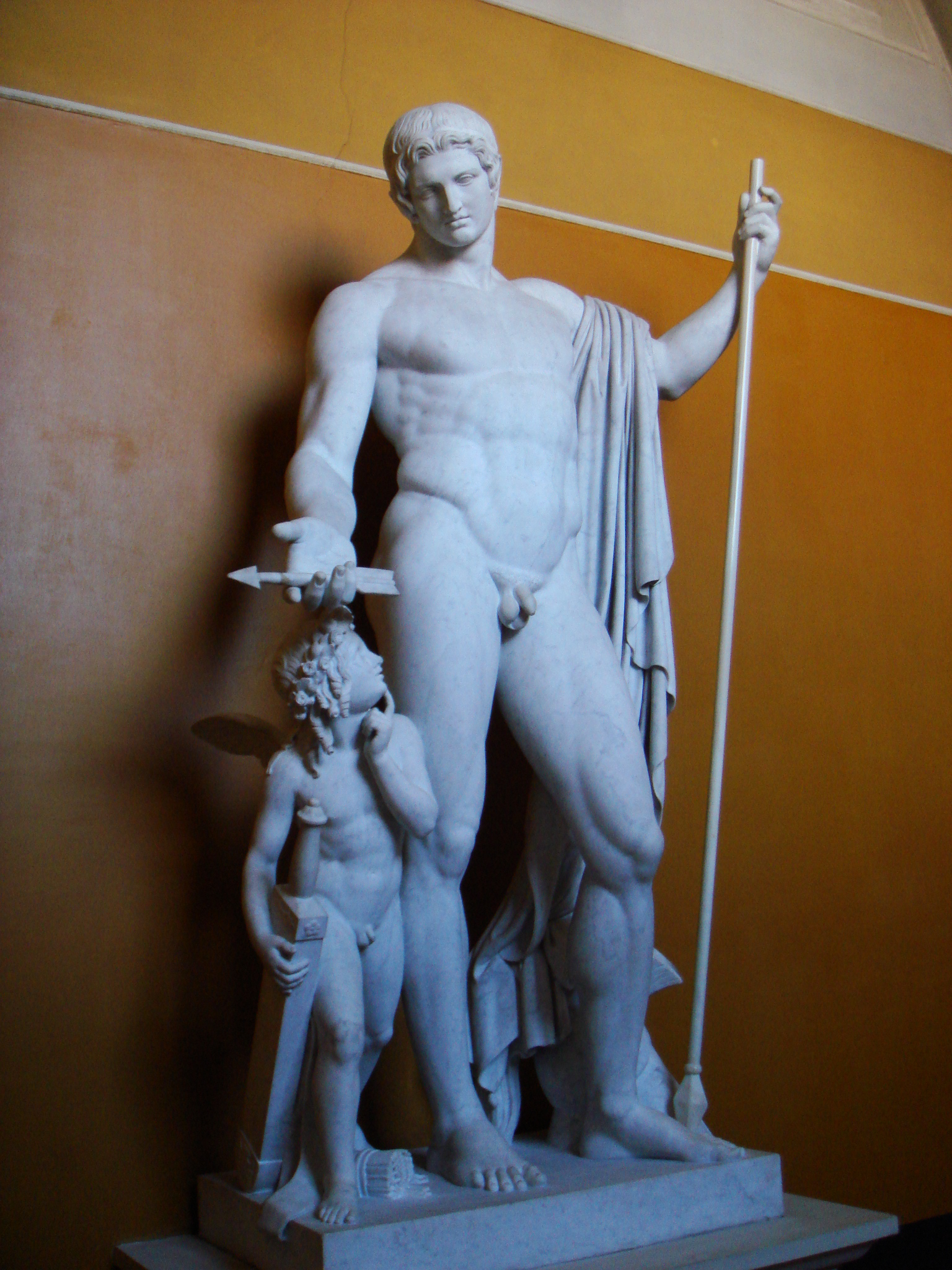 Mars and Cupid by Bertel Thorvaldsen. Museo Thorvaldsen, Copenhagen. Picture by Stefano Bolognini.